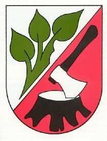 Coat of arms og Alberschwende, Vorarlberg